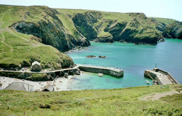 Mullion Cove, Cornwall There's a very small harbour and a cove beyond. It looks peaceful here, but it's no place to be in a westerly Force 9.